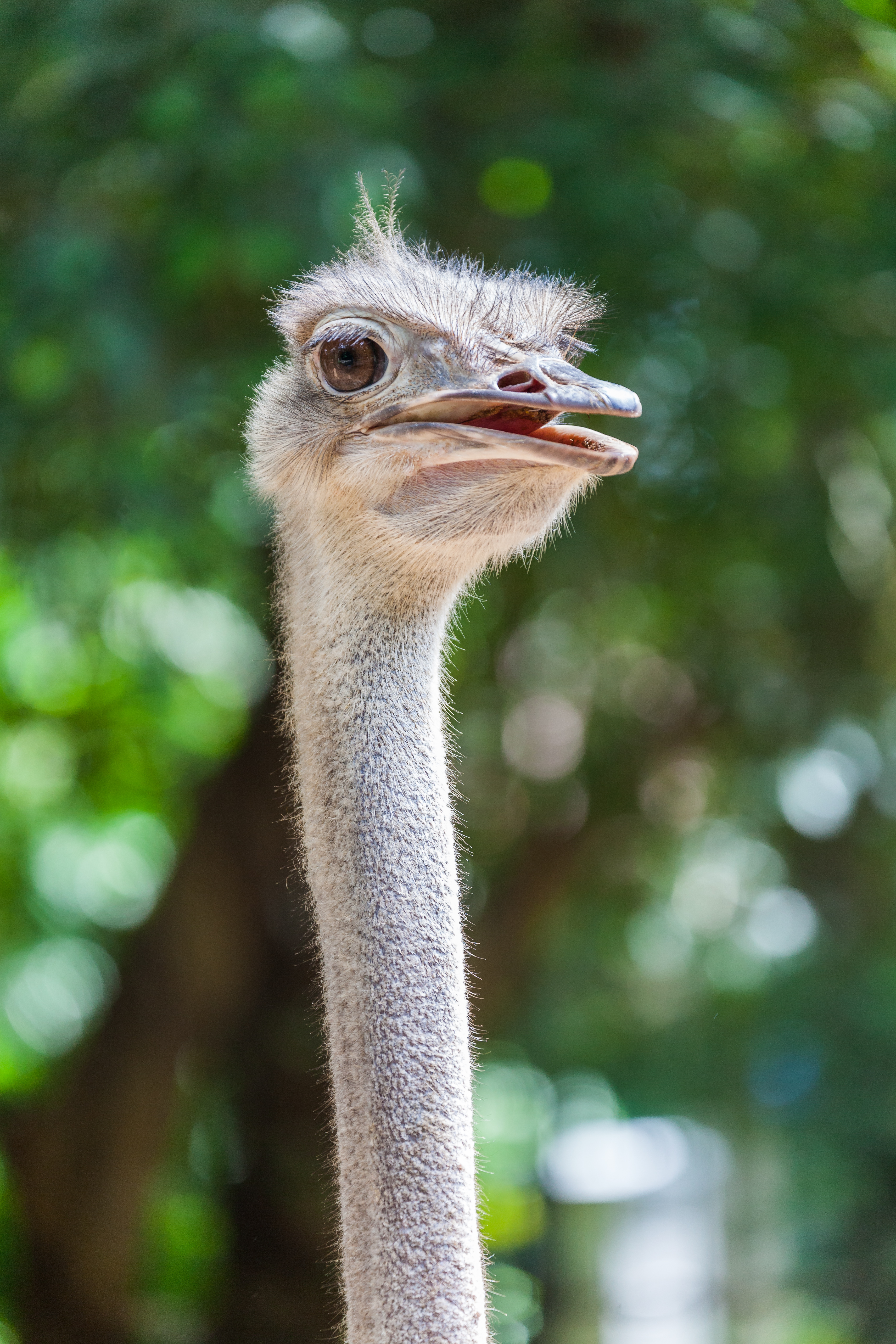 Ostrich (Struthio camelus), Ho Chi Minh City Zoo, Vietnam